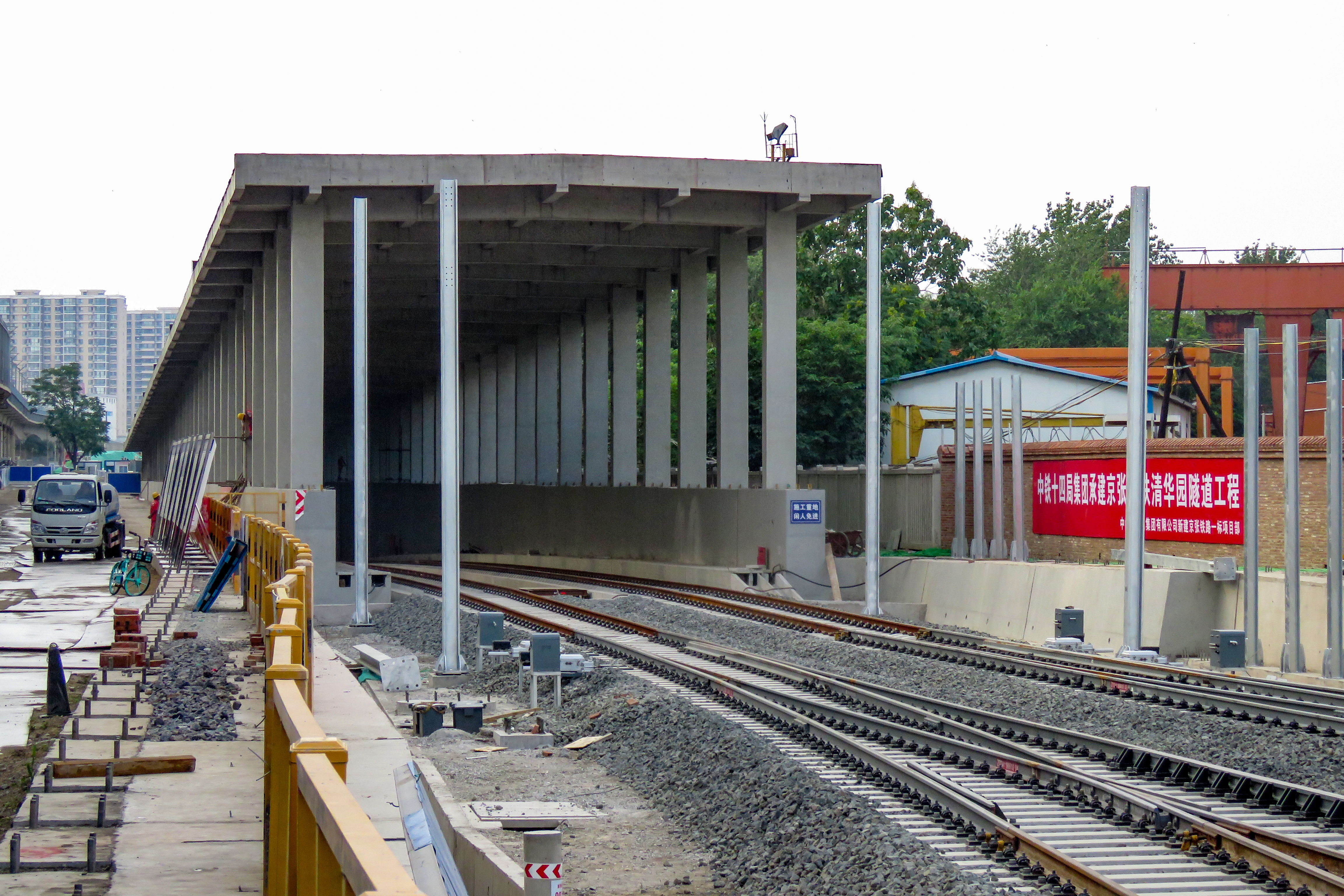 East of the east gate of BJTU.